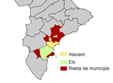 Metropolitan Area of Alacant and Elx